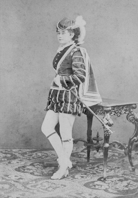 The German actress Wilhelmine Mitterwurzer (1847-1909)